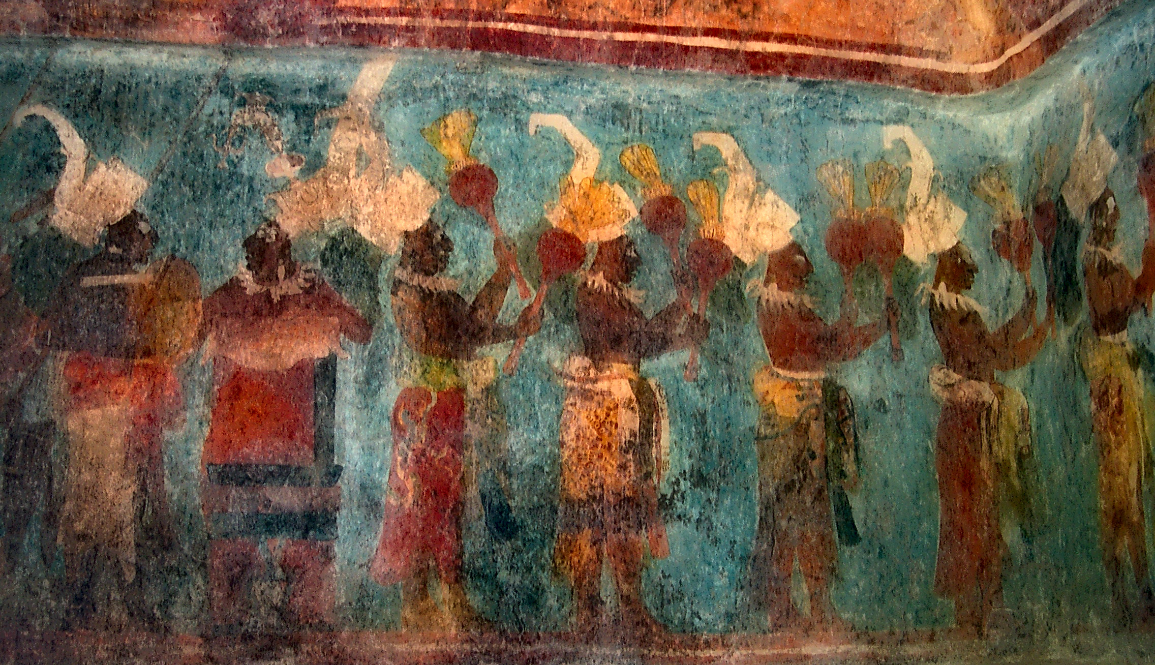 A photograph of one of the paintings at Bonampak